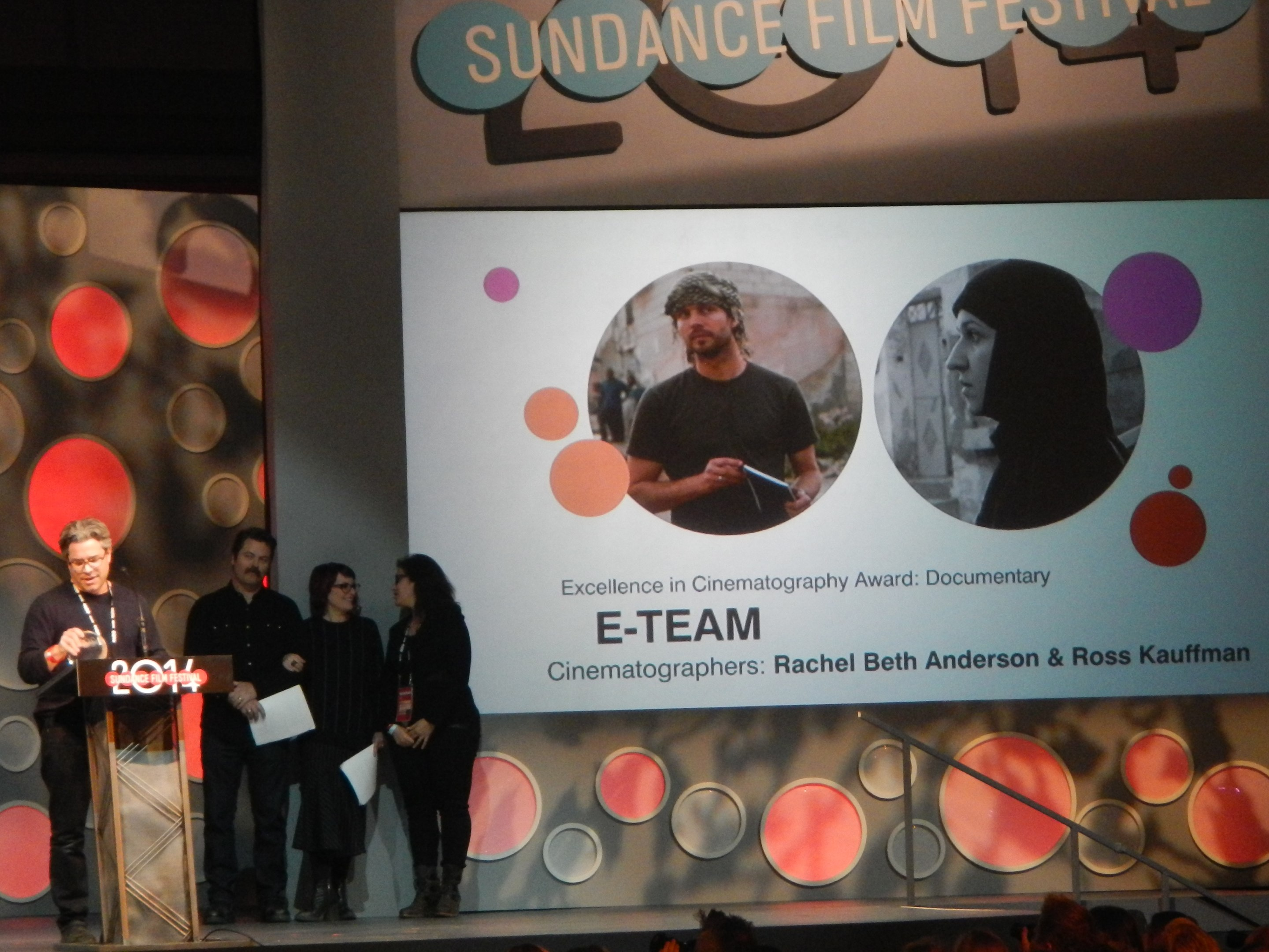 Ross Kauffman at Sundance 2014 Awards Ceremony